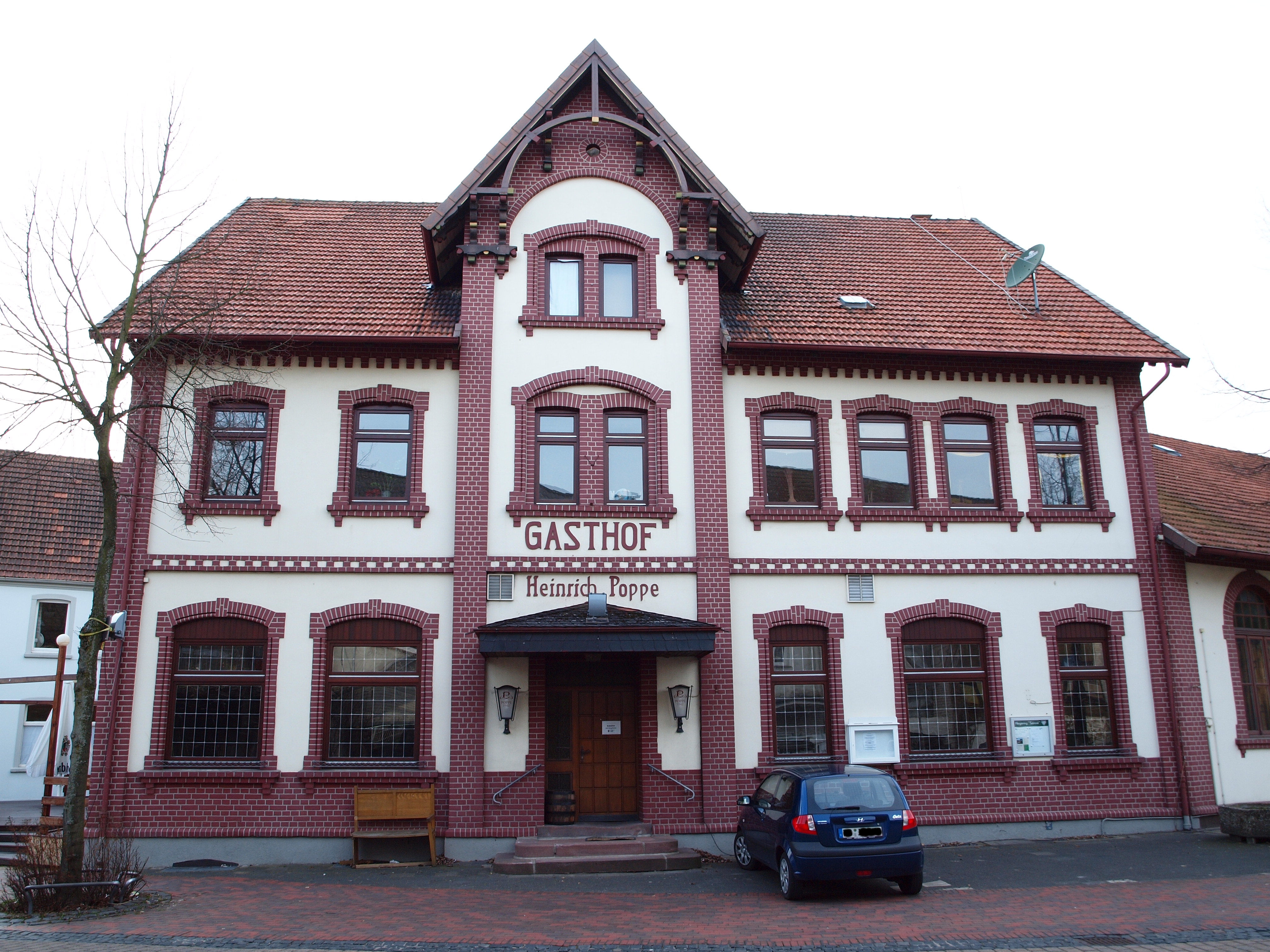 Inn Heinrich Poppe in Schlangen (demolition 2014)